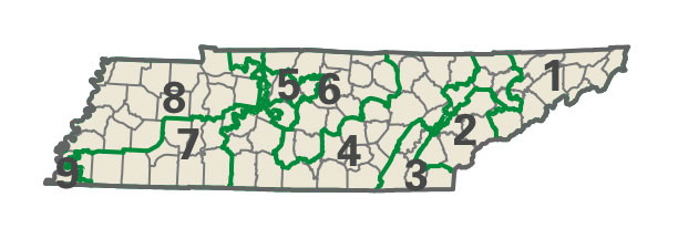 Tennessee election districts (House of Representatives election 2006)